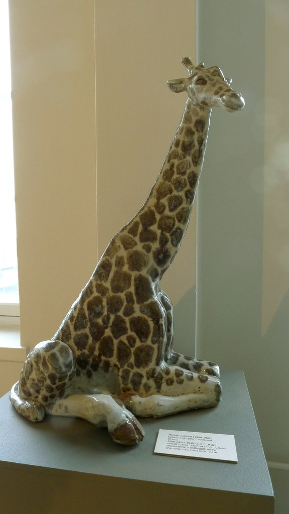 Giraffe by Michael Schilkin (Arabia)